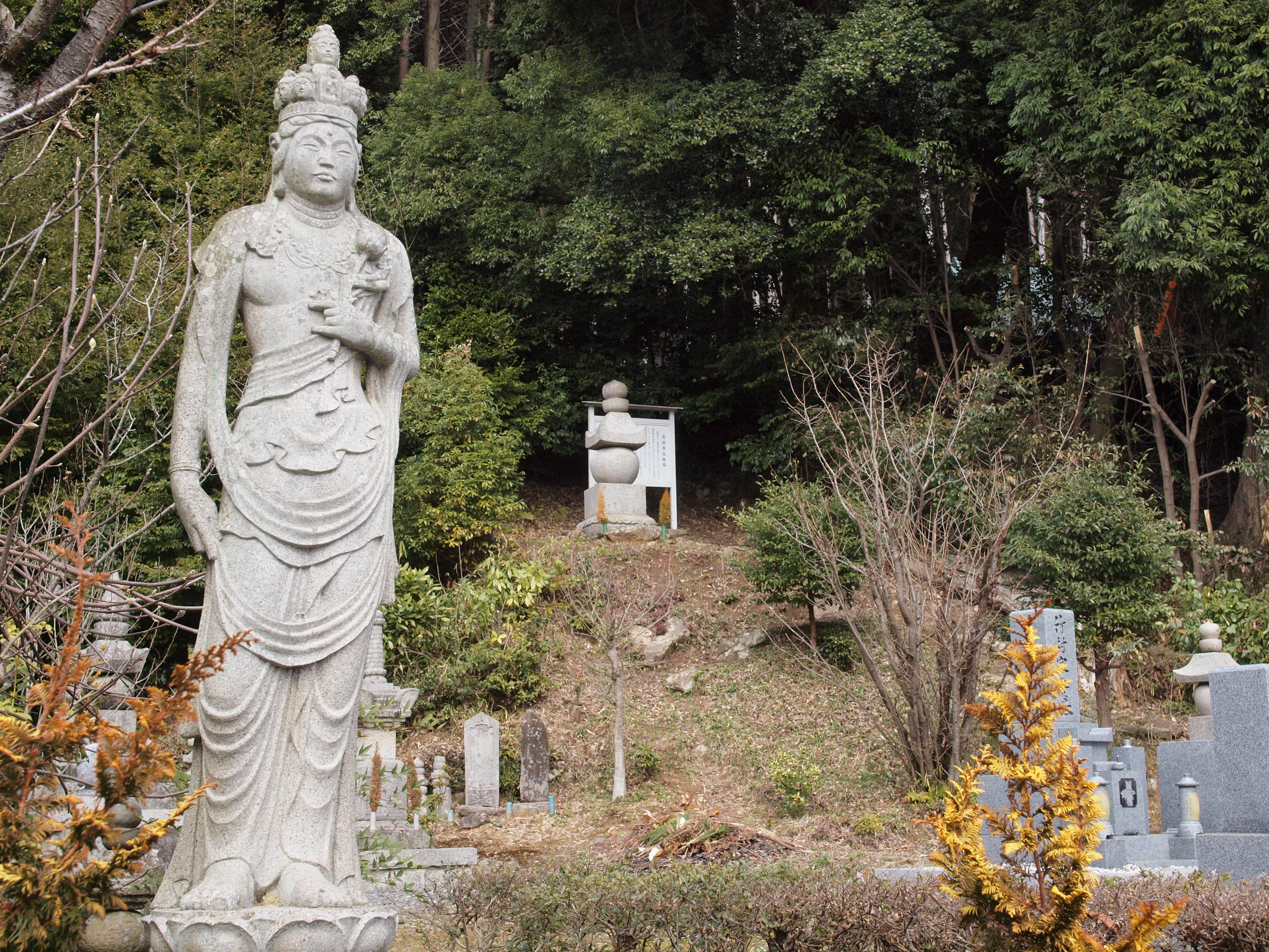 Ninchoji-Jumyoin (Temple) in Ibaraki, Osaka, Japan